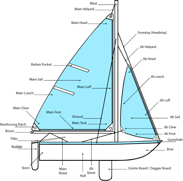 Illustration showing various parts of a small sailboat.